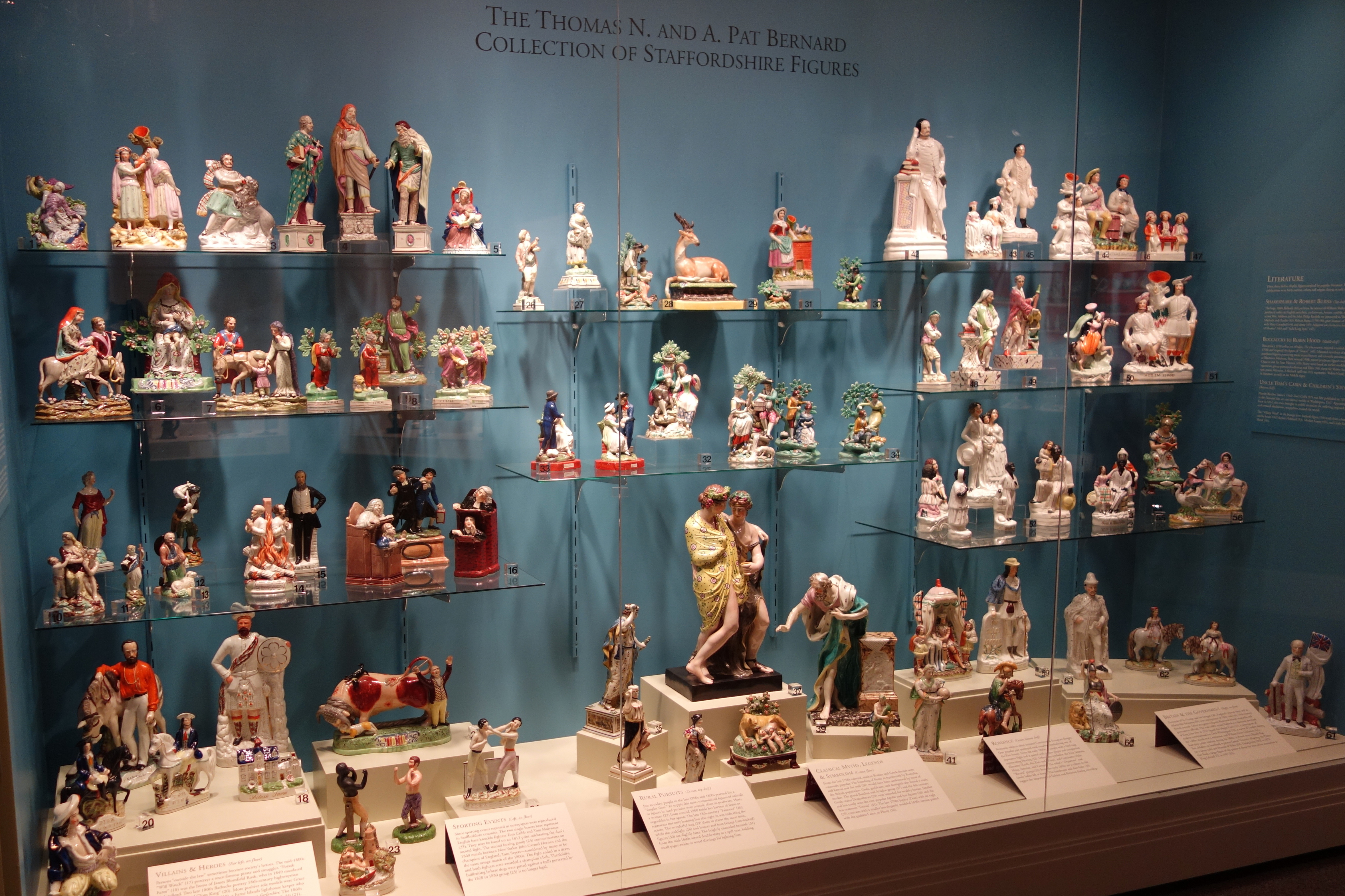 Exhibit in the Winterthur Museum, New Castle County, Delaware, USA. This work is in the public domain because the artist died more than 70 years ago.